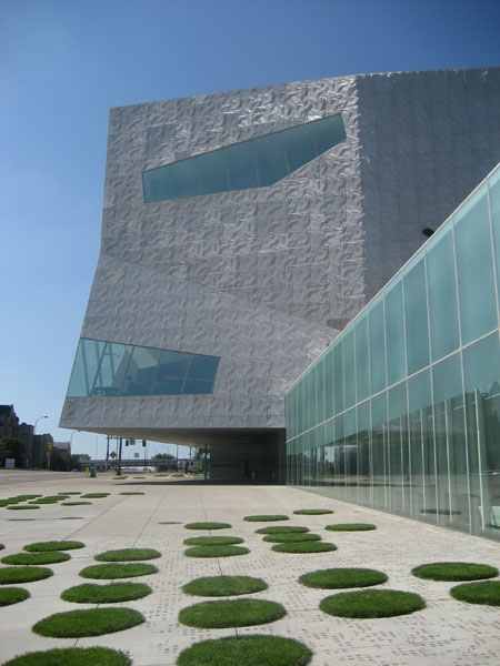 Walker Art Center (Front) Minneapolis, Minnesota